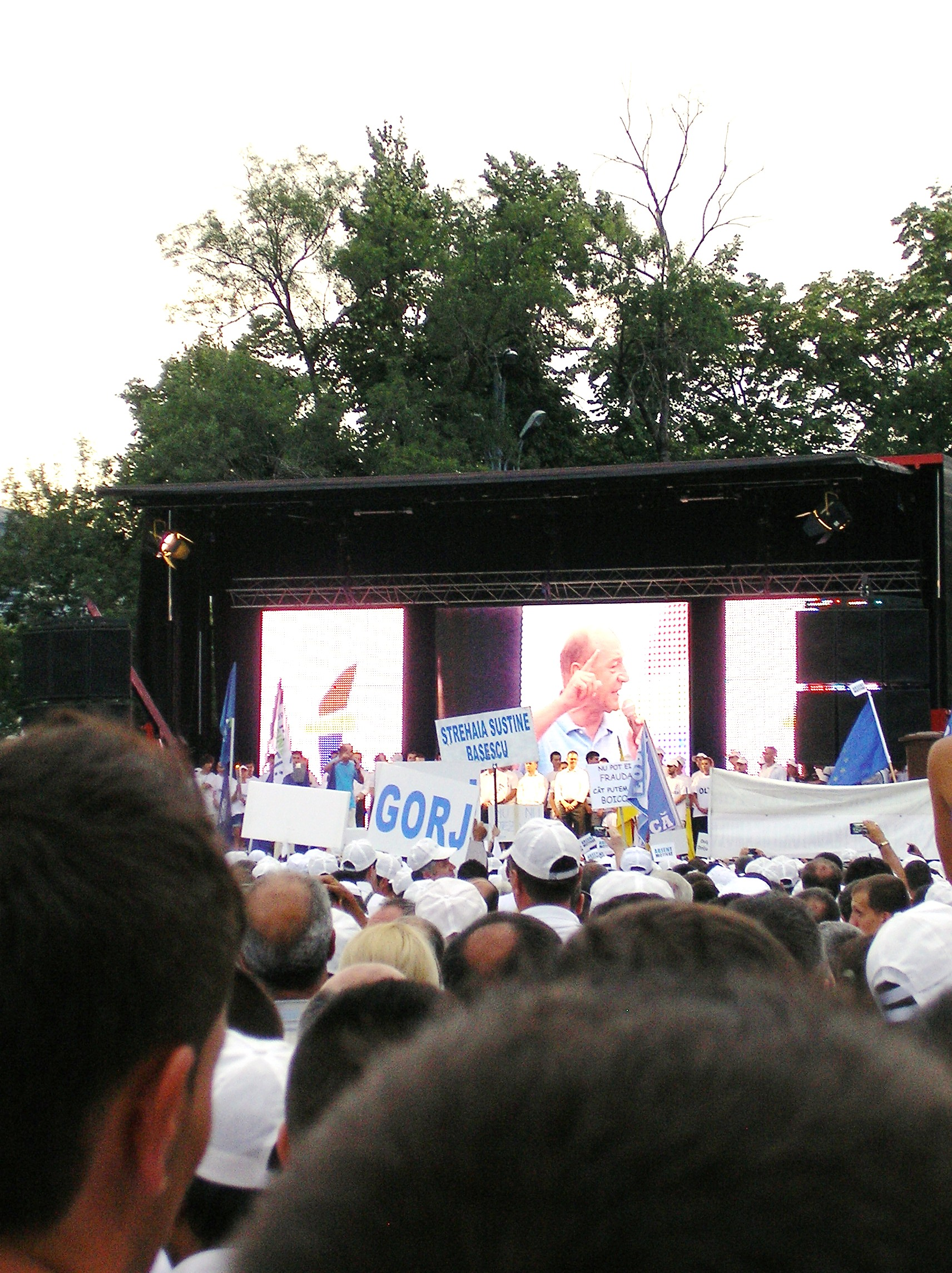 Traian Băsescu, the impeached Romanian President, speaking at a meeting in his support.